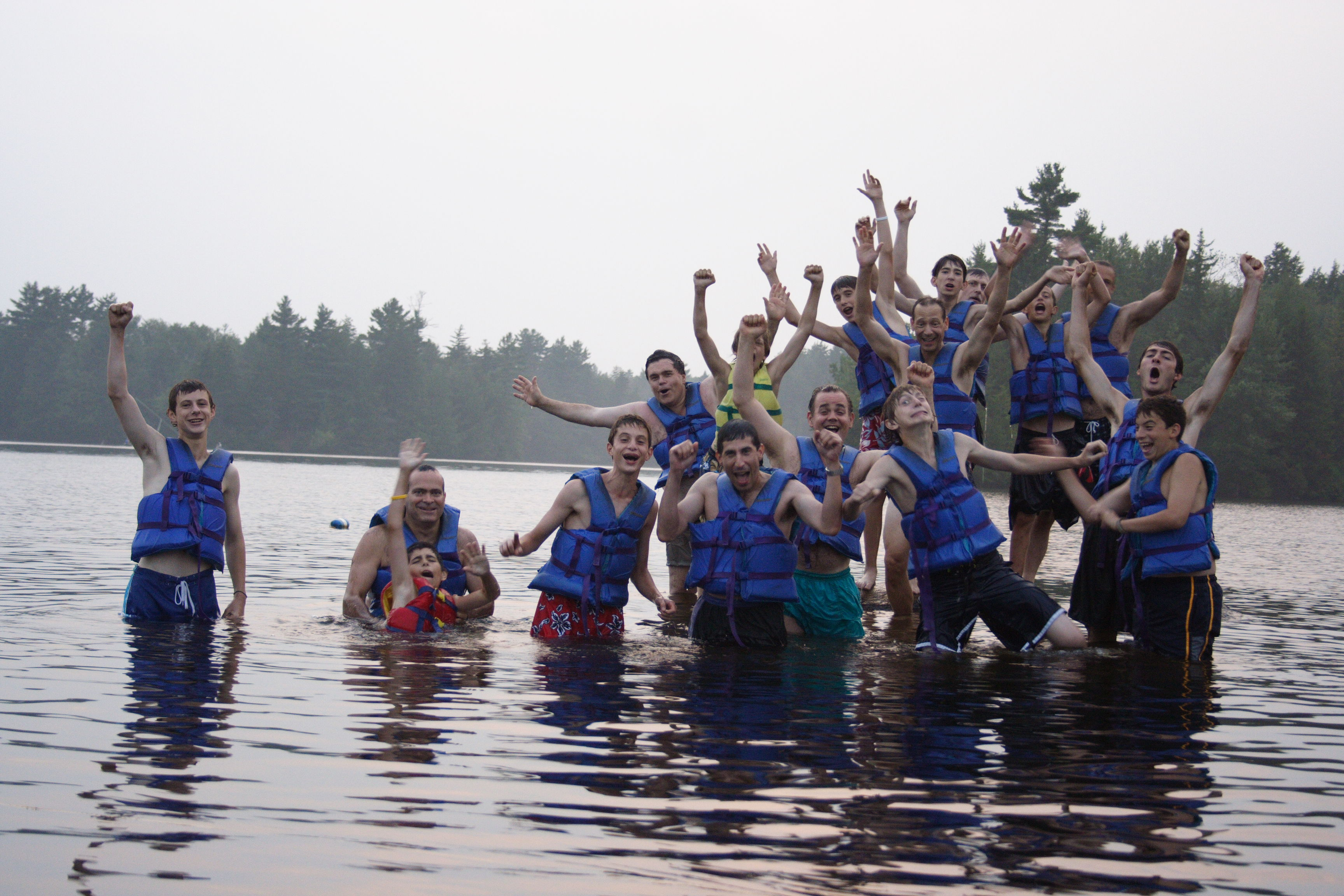 Campers and staff of Camp Becket of the Becket Chimney Corners YMCA enjoying Rudd Pond